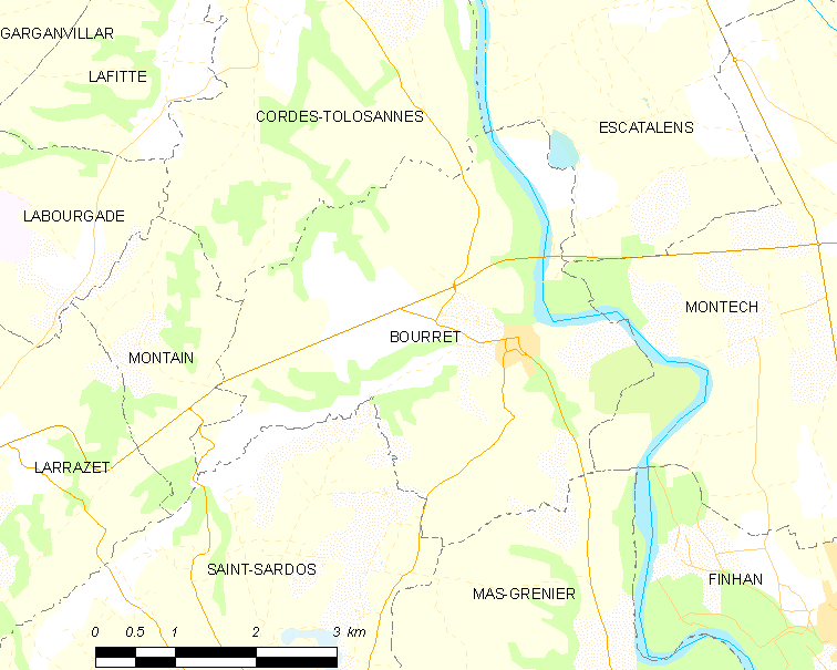 Map of French municipality Bourret